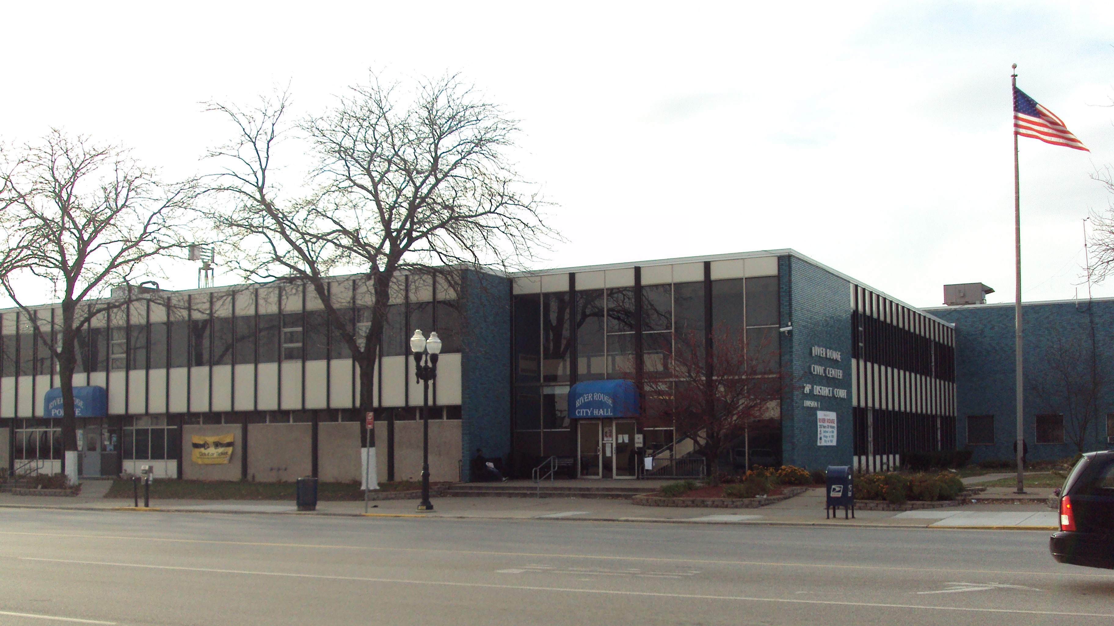 River Rouge City Hall (Michigan)